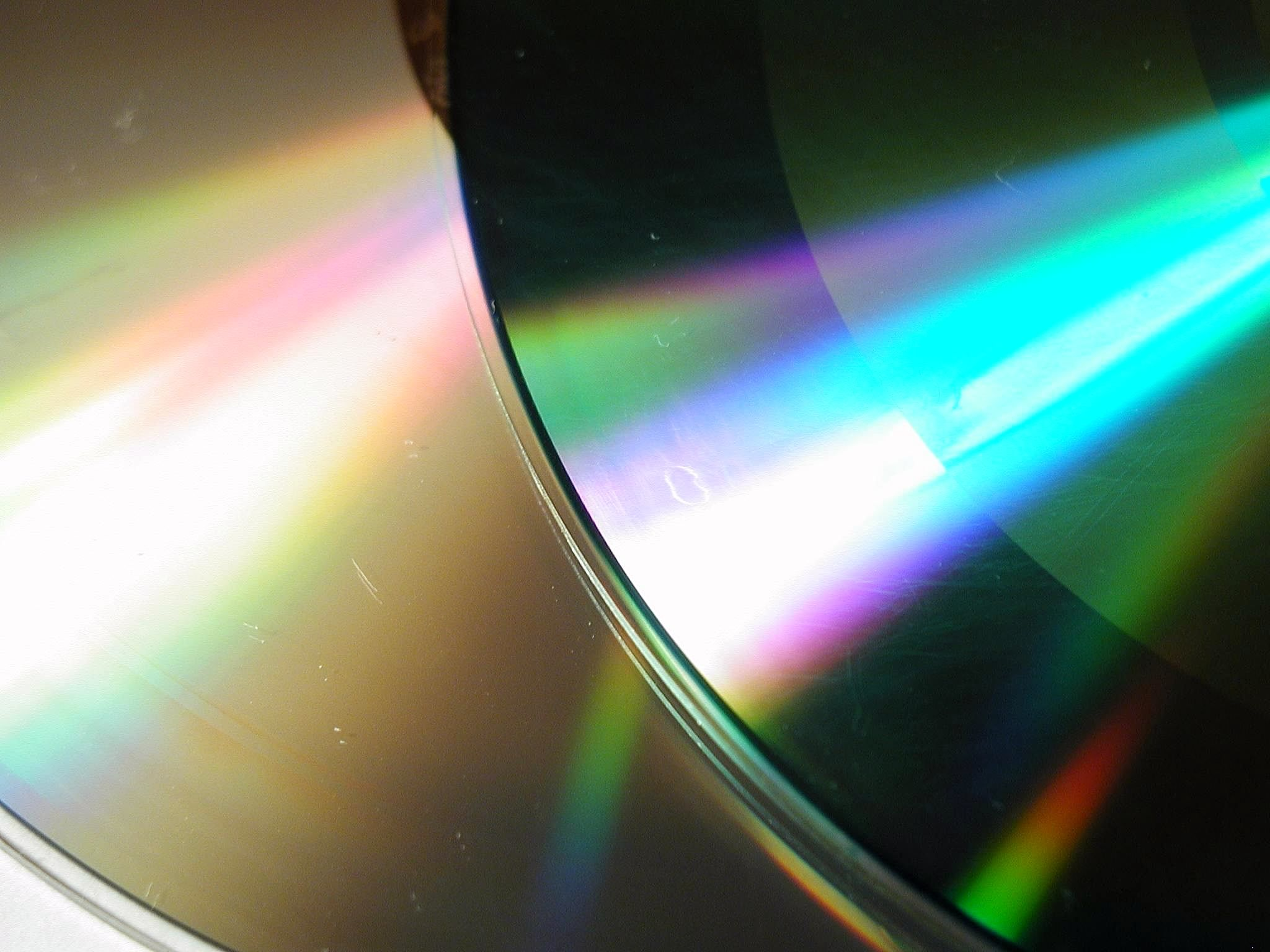 Image title: Cd dvd rays Image from Public domain images website